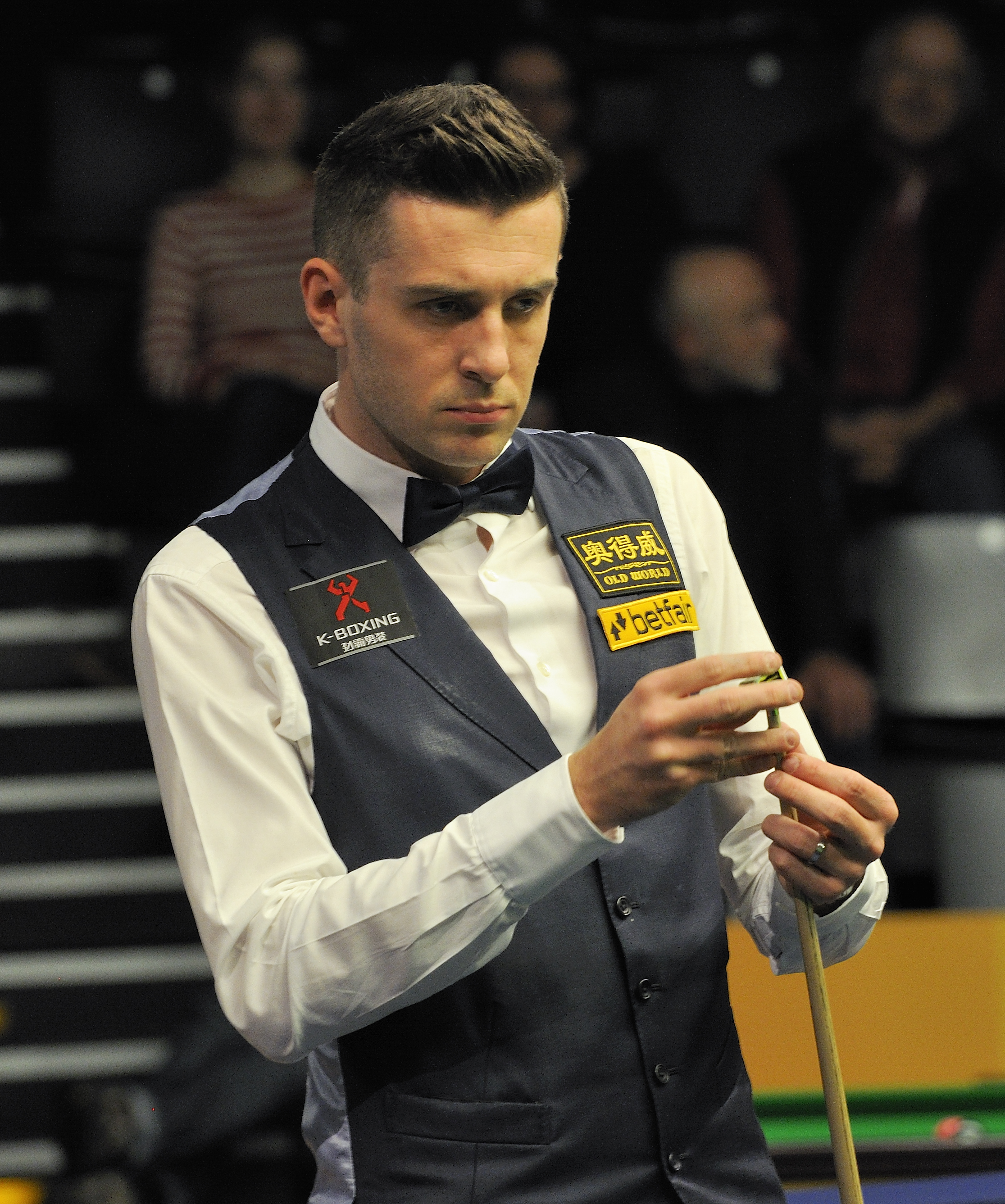 Picture taken in Berlin during the Snooker German Masters in 2013. Mark Selby.